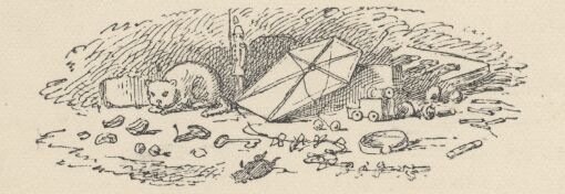 Illustrations de The Adventures of Tom Sawyer, 1876.